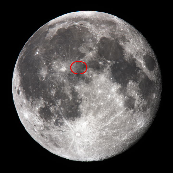 The Location of Sinus Aestuum, One of the Lunar Geographical Features.